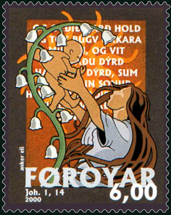 The word and the light. Stamp FR 378 of Postverk Føroya, Faroe Islands Date of issue: 18 September 2000 Photo: Anker Eli Petersen